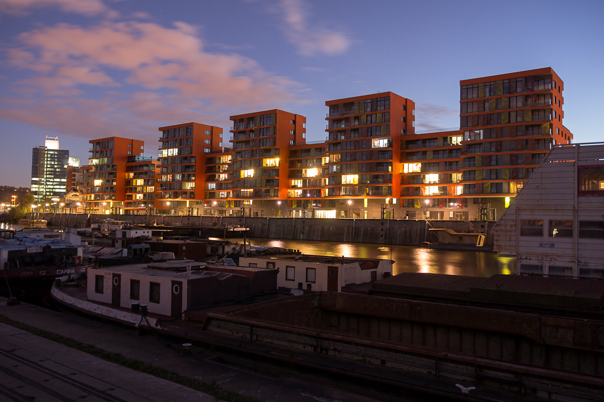 View from the Port Holešovice of the block of flats Prague Marina - 2010